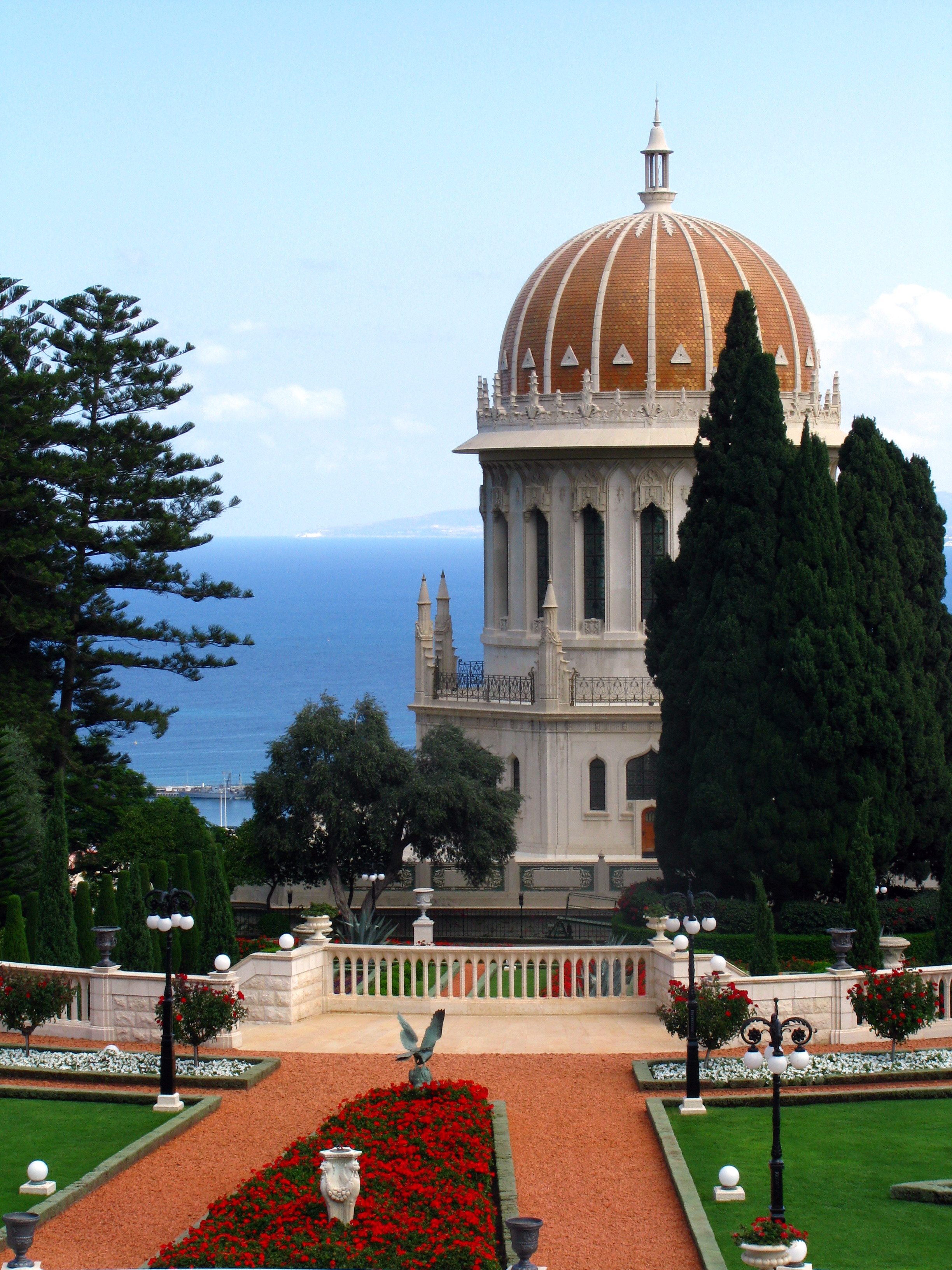 Shrine of the Báb, Haifa